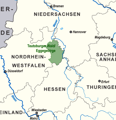 Map of Teutoburger Naural park, cropped and clarified to make it more useful with a small computer screen. I will add more detail on the provenance very shortly